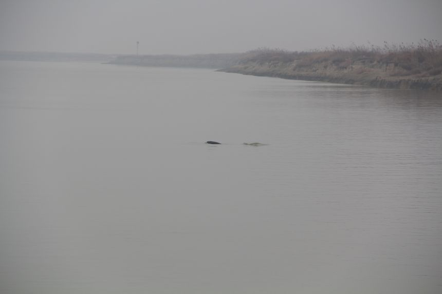 Yangtze finless porpoise in Poyang Lake, Jiangxi, China, on 9 January 2012.